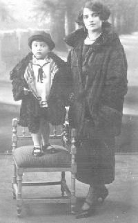 Pier Paolo Pasolini at the age of 3 with his mother (1925)